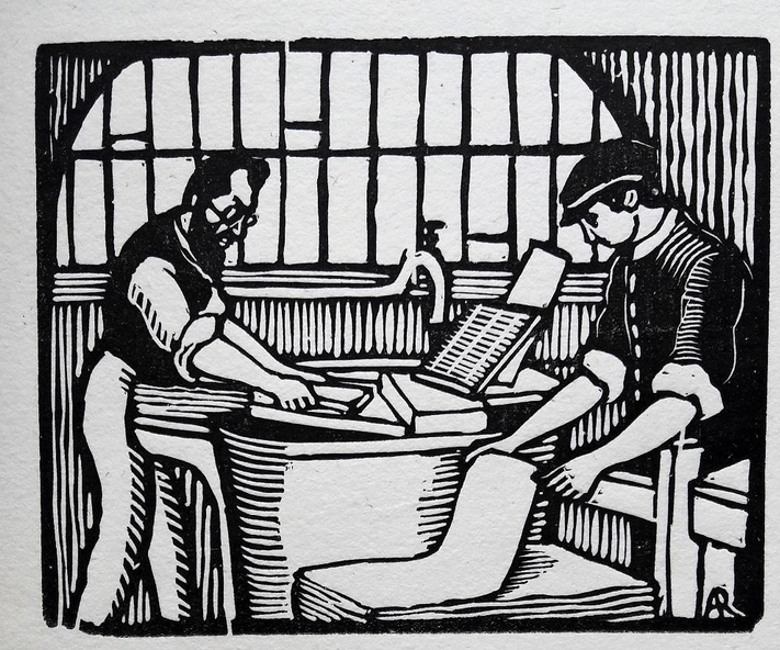 Woodcut, signed A.R.